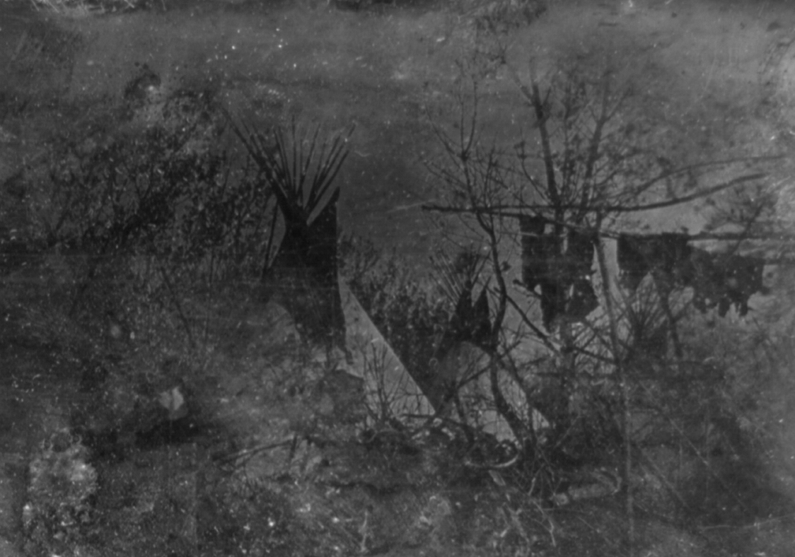 View of a Cheyenne village at Big Timbers, in present-day Colorado, with four large tipis standing at the edge of a wooded area. Frame with pemmican or hides hanging at the right; two figures, facing camera, standing to the left of center. Identified as a daguerreotype by Solomon Carvalho of a Plains Indian village in Kansas Territory taken during the Frïemont Expedition in 1853, probably copied by the Mathew Brady studio. This identification was based on the fact that the daguerreotype was acquired by the Library with other daguerreotypes from the Brady studio and that Brady was hired by Frïemont to copy Carvalho's daguerreotypes on wet plate negatives. Library of Congress Prints and Photographs Division